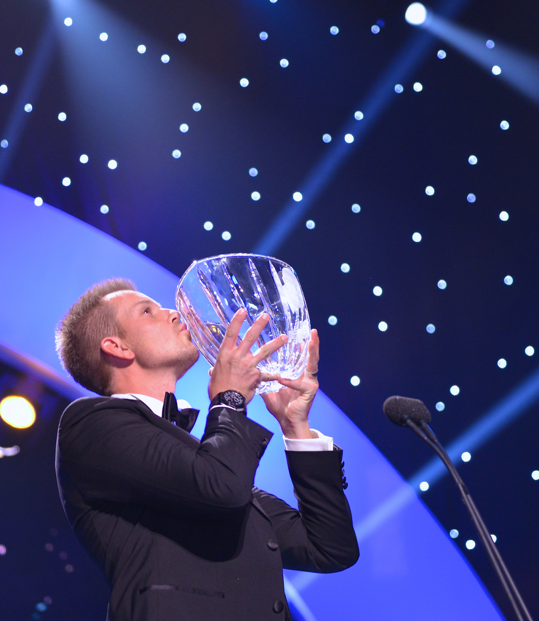 Henrik Stenson wins Jerring Prize 2013 at the Swedish Sports Gala at the Ericsson Globe in Stockholm on January 13, 2014.